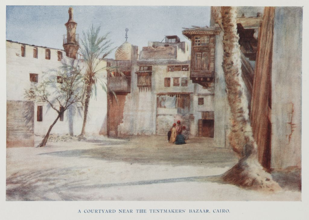 Painting of a courtyard with four figures in the shade.